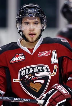 Picture of Craig cunningham